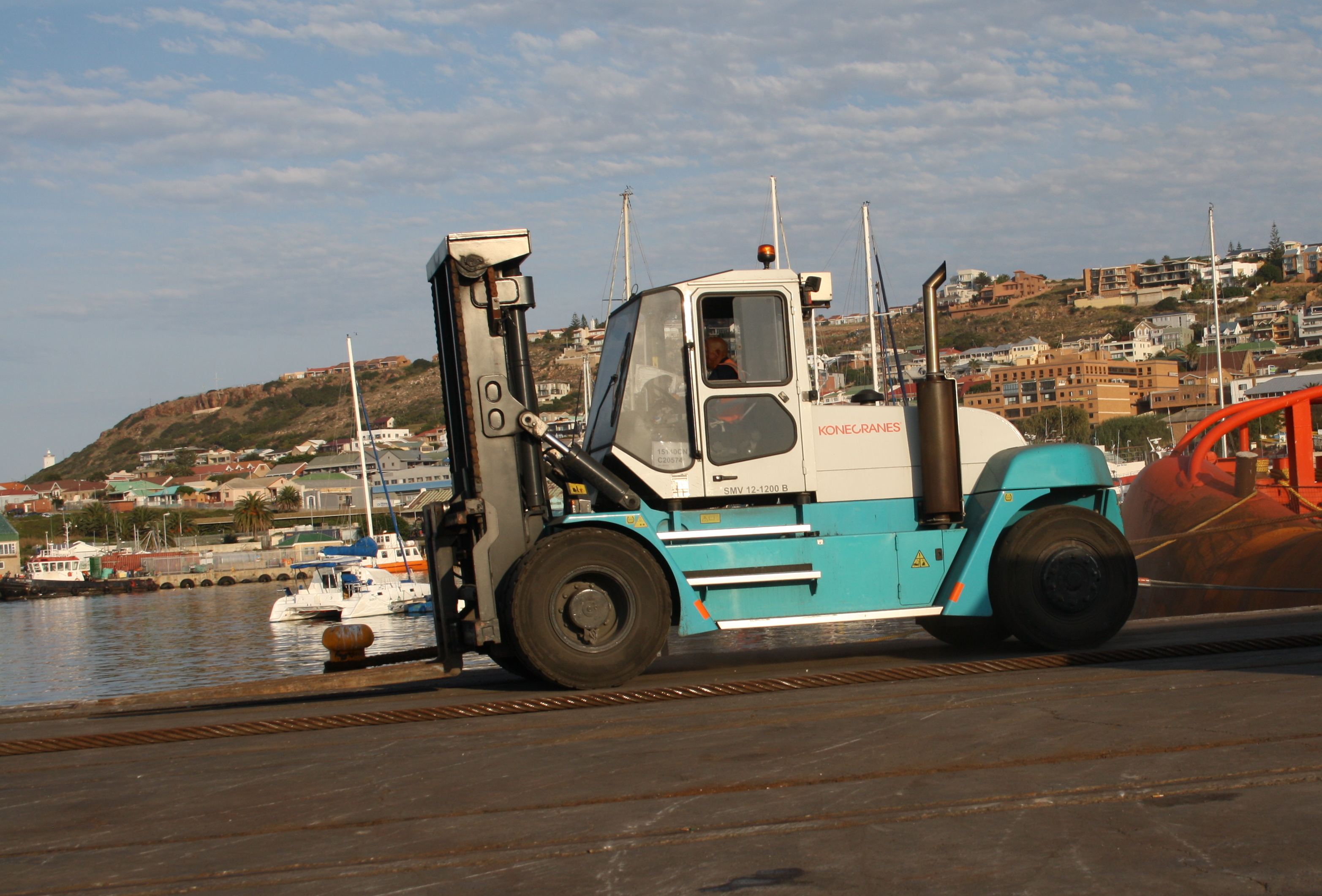 Konecranes SMV 12-1200 B 12T forklift